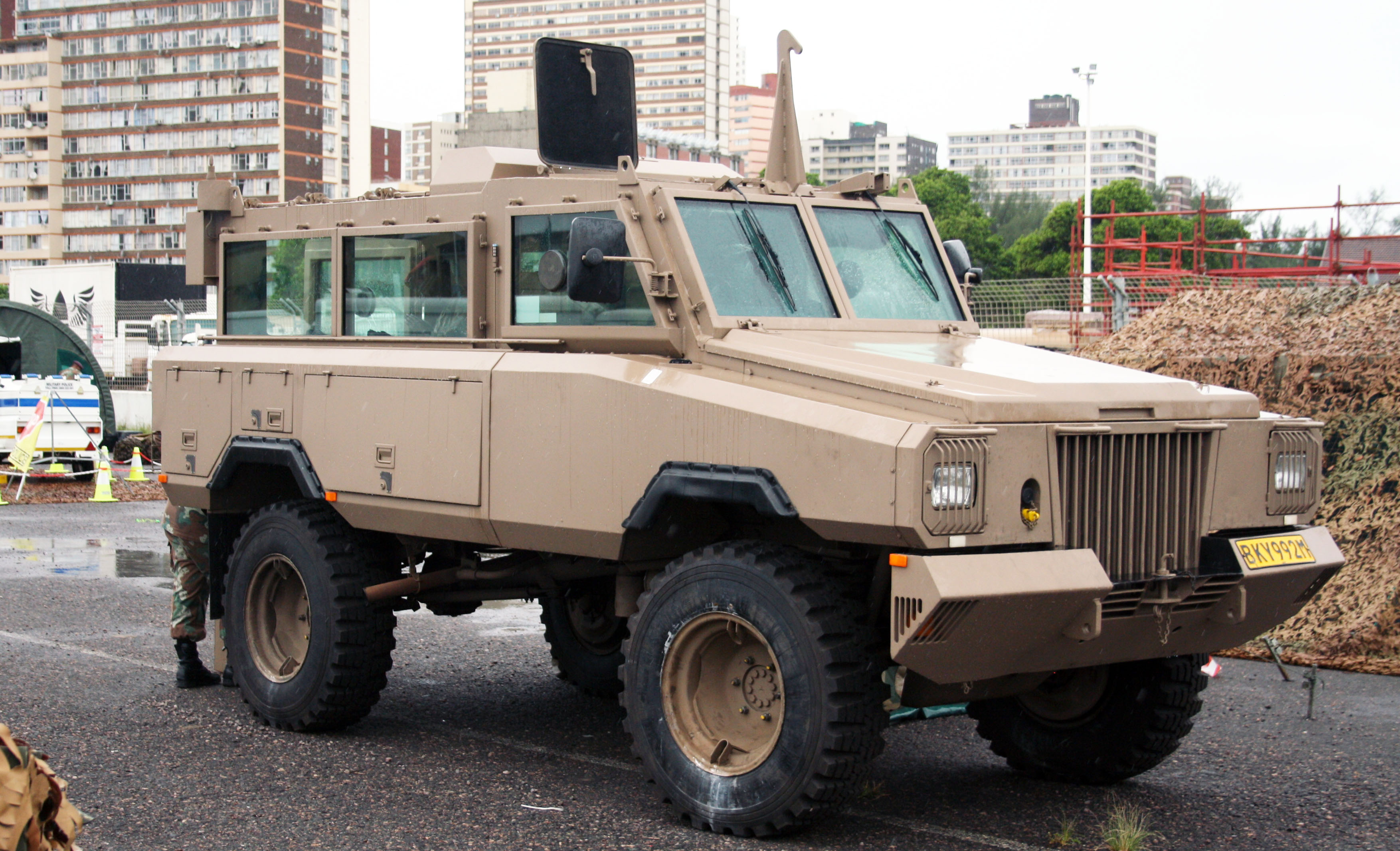 South African Army Mamba MkIII APC